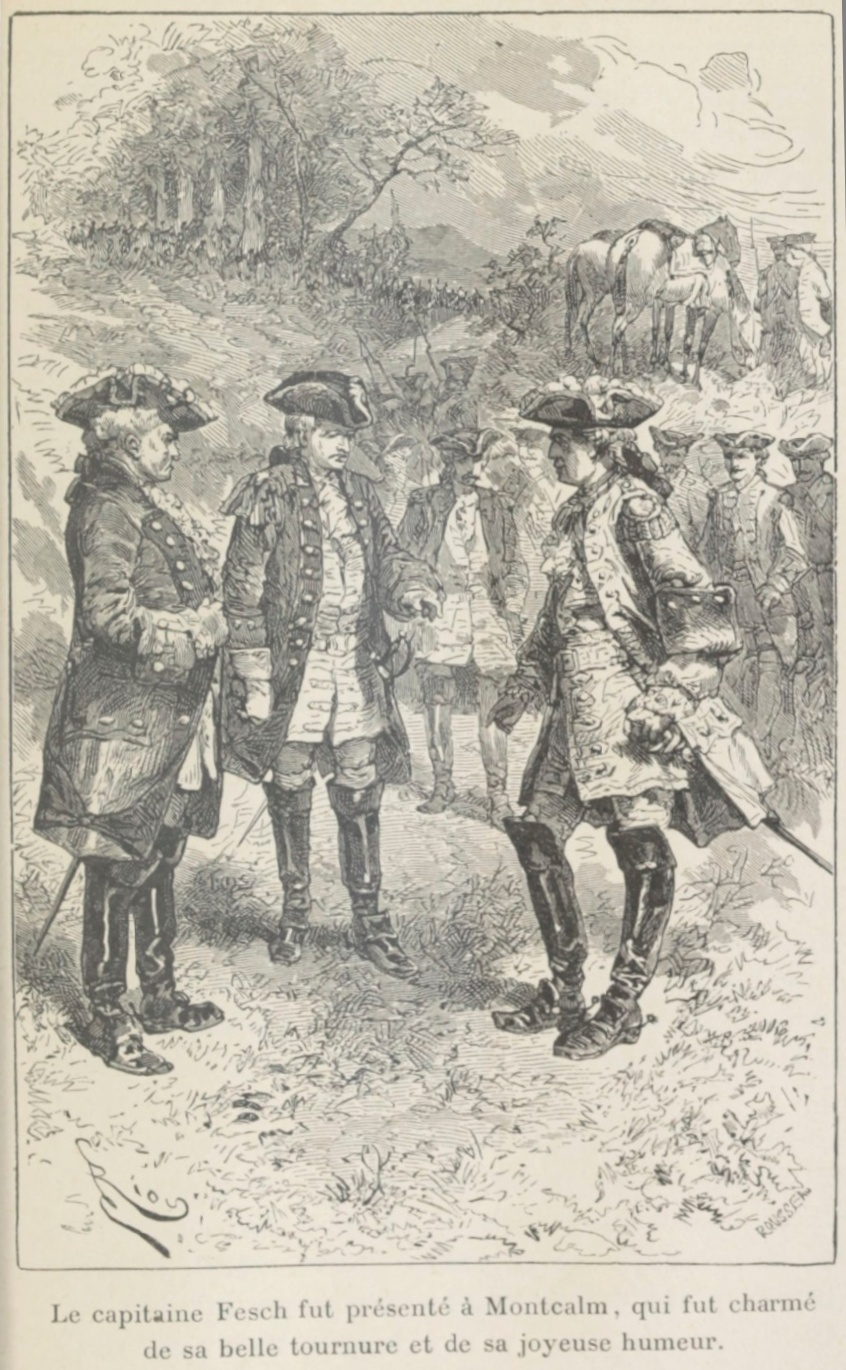 Montcalm receiving on August 9, 1757 the English captain Mr. Fesch came to contact him on behalf of Lieutenant-Colonel Young and George Monro to negotiate the surrender of Fort William Henry. Illustration published in 1913 in The French in Canada: Montcalm and Lévis by Father Henri-Raymond Casgrain (1831 - 1904).